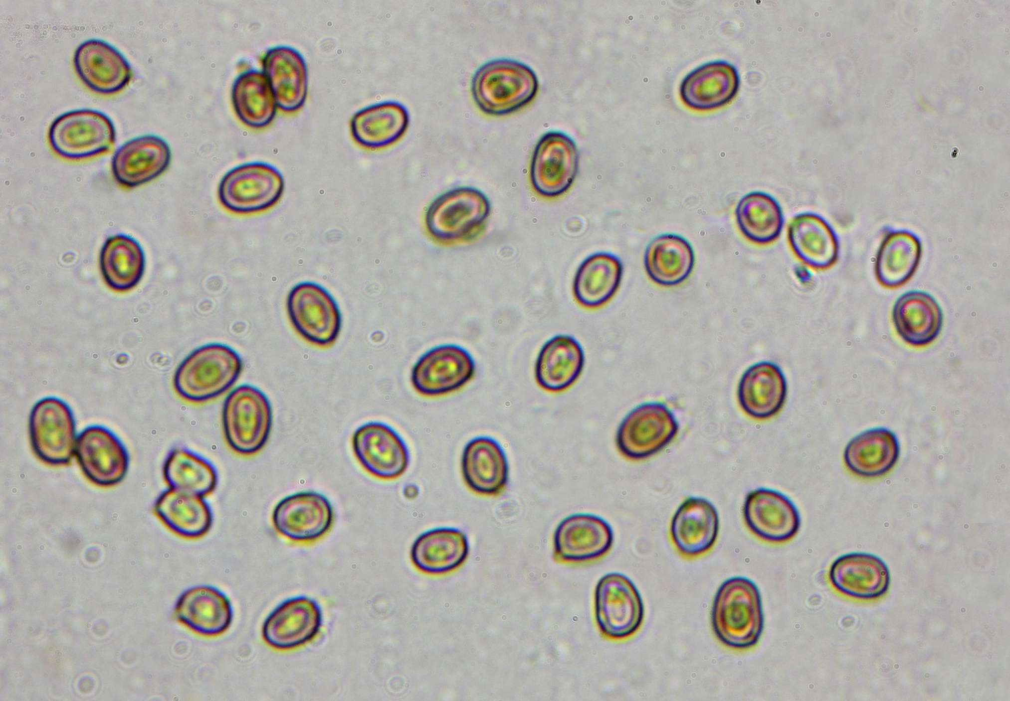 This image is Image Number 300277 at Mushroom Observer, a source for mycological images. This tag does not indicate the copyright status of the attached work. A normal copyright tag is still required. See Commons:Licensing.